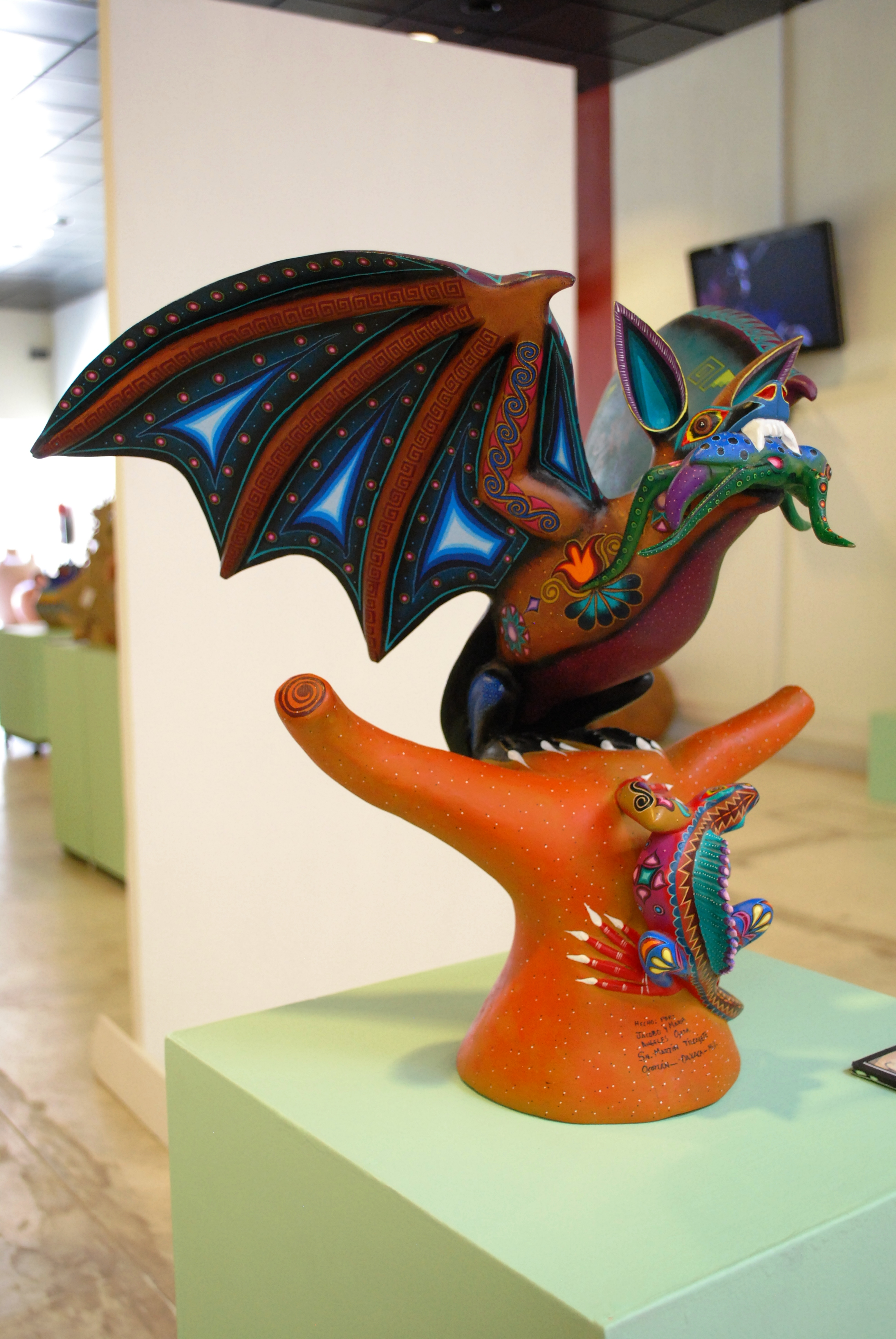 "El Ciclo de Oaxaca" by Jacobo and Maria Angeles of San Martin Tilcajete at Museo Estatal de Arte Popular de Oaxaca in San Bartolo Coyotepec, Oaxaca, Mexico. See COM:CRT/Mexico#Freedom of panorama